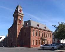 Photo by Shaun Bythell